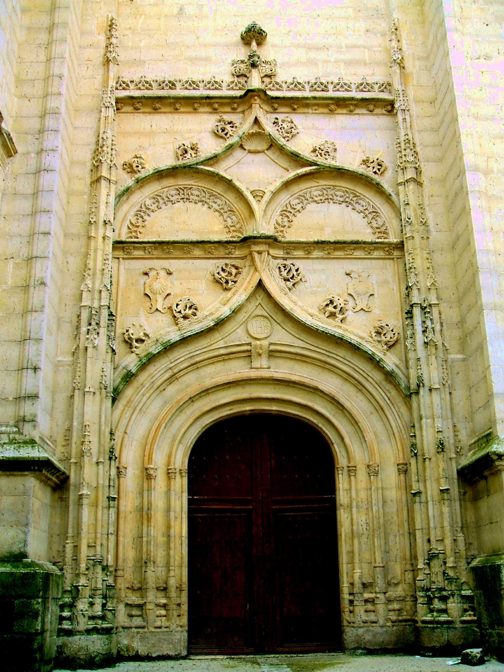 Portada norte tardogótica (s-XVI) de la Iglesia de Santiago Apóstol, Medina de Rioseco (Valladolid, Castilla y León, España)